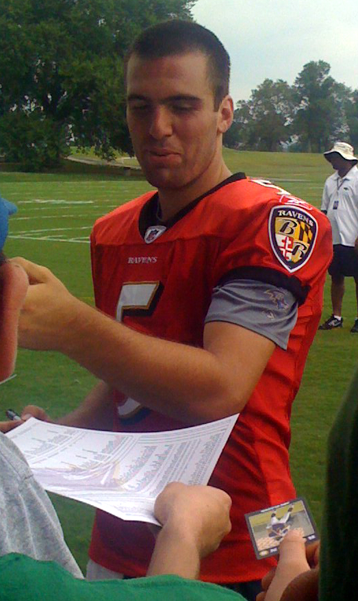 quaterback joe flacco